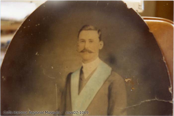 John Archibald McIntyre drowned "SS Fitzroy" disaster Teacher in charge of Bonville School from January 1902 until his death